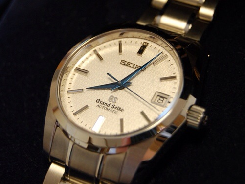 Grand Seiko Watch.SBGR037.